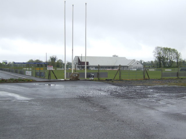 Sean Eiffe Park, Ratoath, Co. Meath Home of Ratoath GAA Club, and venue for Gaelic sports and athletics.